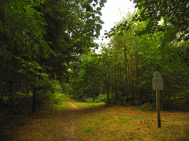 The Chase: National Trust. The Chase is managed by the National Trust and is in the southern half of the square.